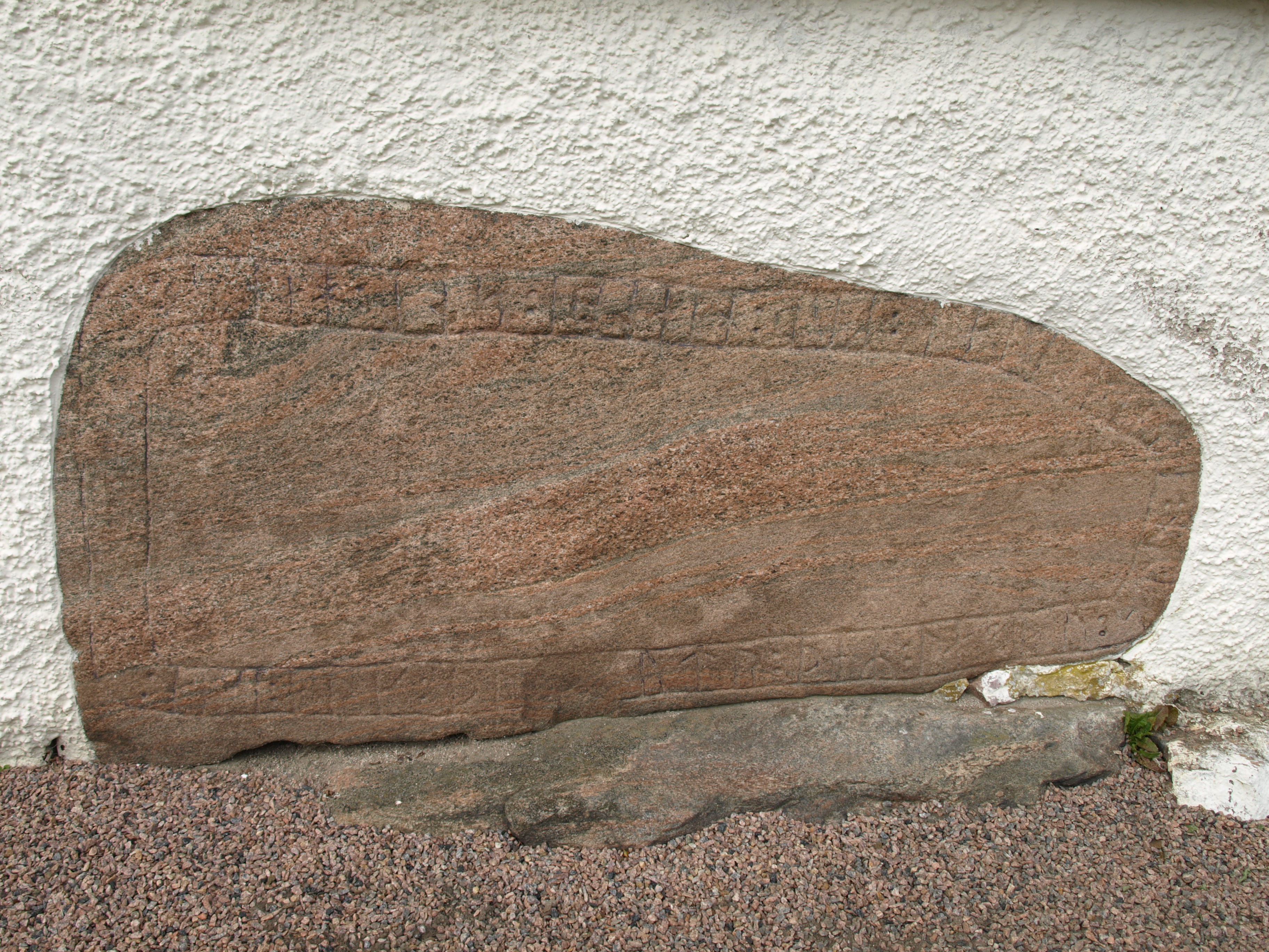 The runestone Danmarks runeindskrifter 354, in the exterior of Kvibille Church, Halland, Sweden